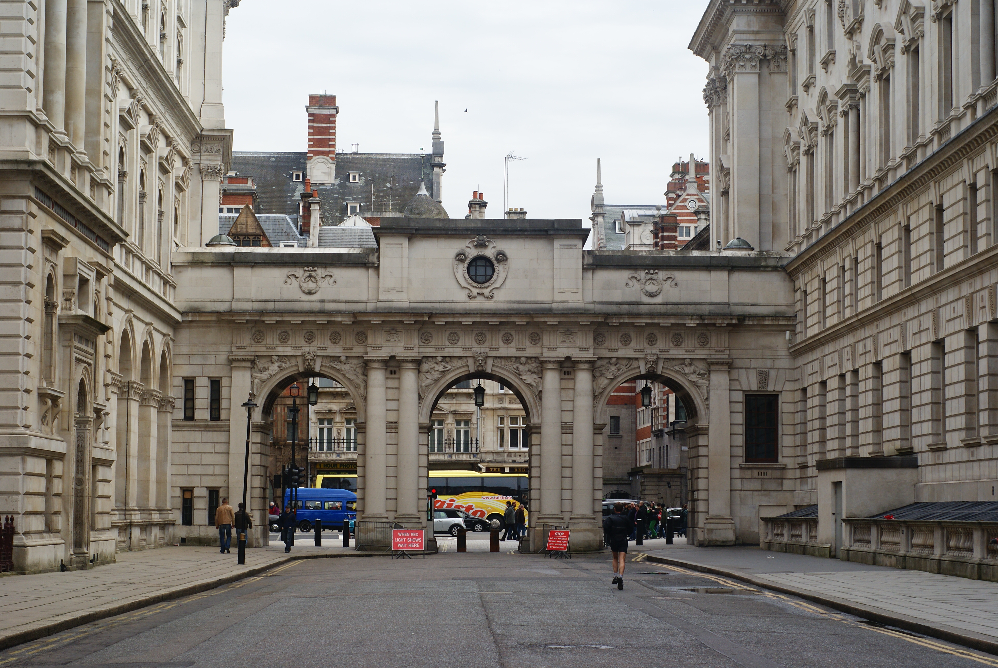 Archway in King Charles Street, London At the eastern end of King Charles Street; the junction with Whitehall.